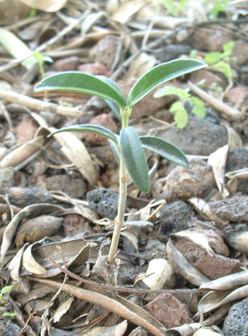 Young olive (Olea europaea) plant, that germinated from a seed. Photographed by me in Karkur, Israel; Dec. 30, 2005. Fuji FinePix 2650 camera.